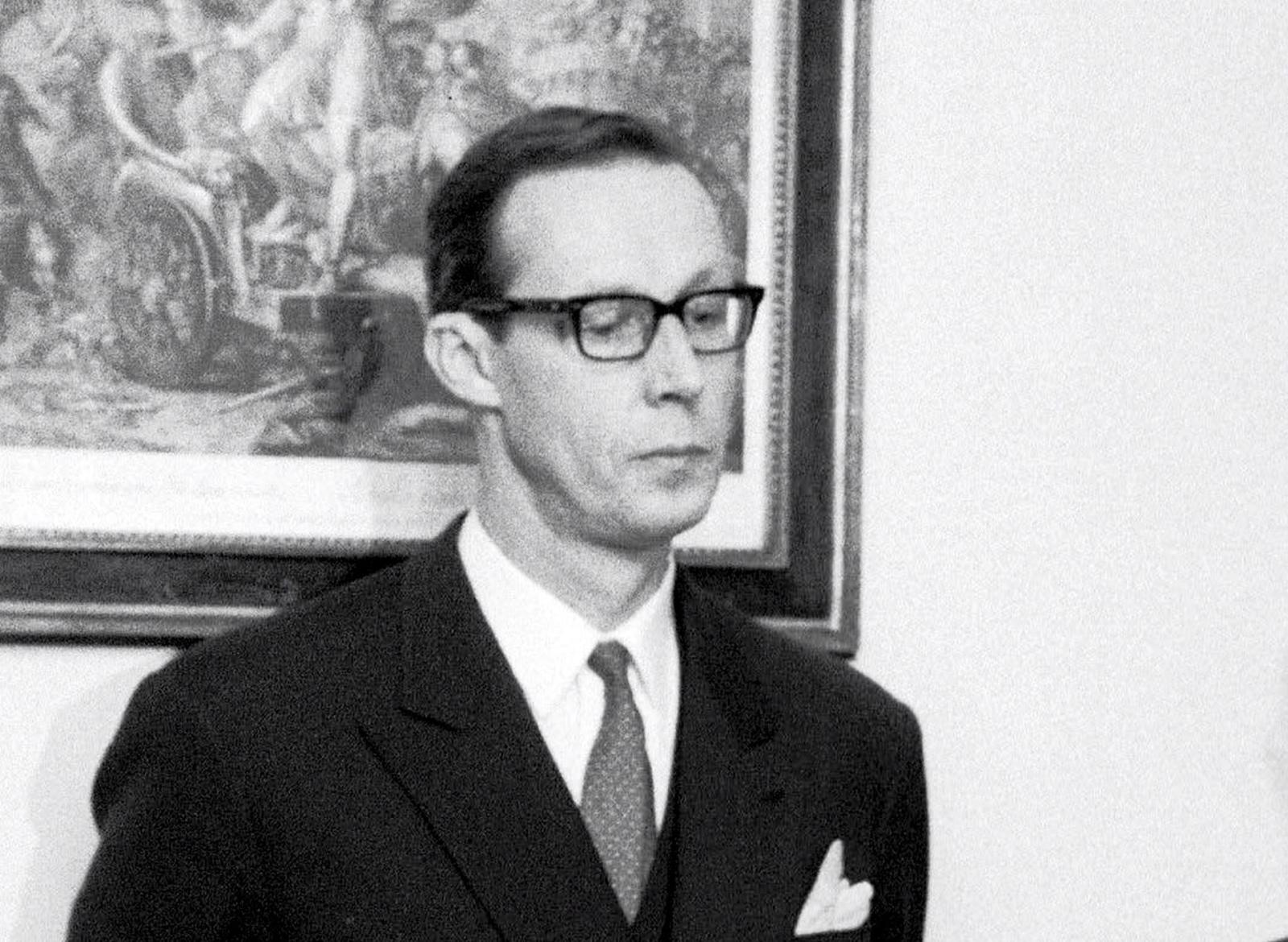 Photograph of the Finnish diplomat and businessman Tankmar Horn (1924–2018).